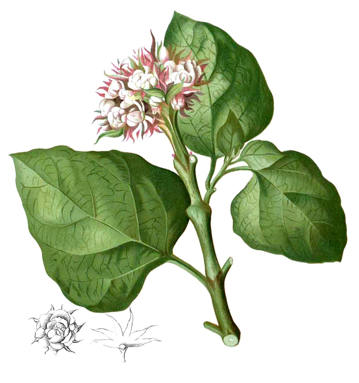 Plate from book